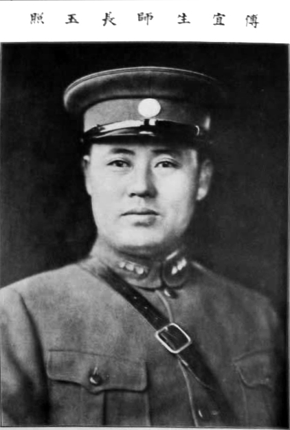 Fu Zuoyi